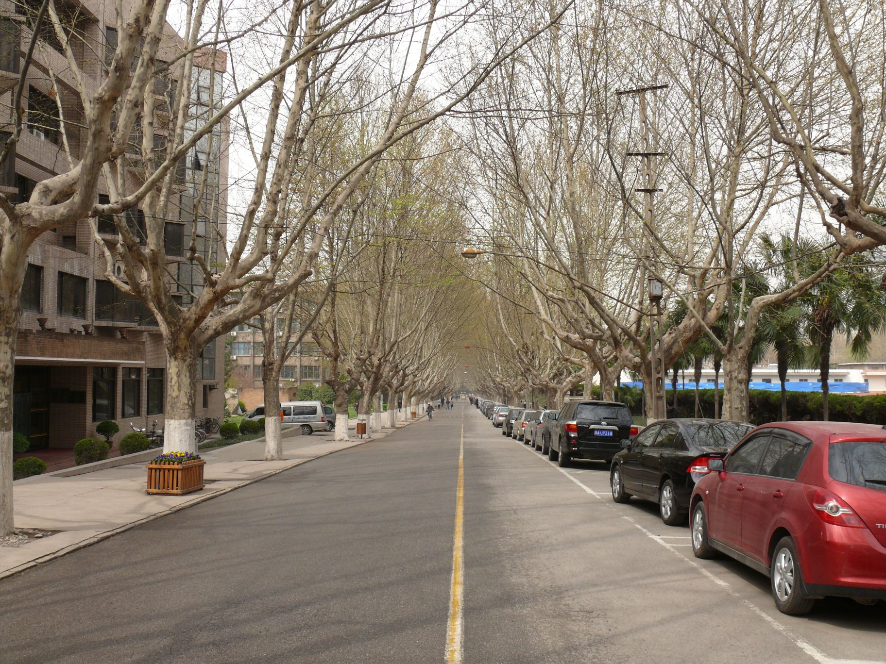 Road with Platanus in Xi'an Jiaotong University (Shaanxi, China)